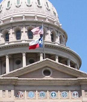 Flags at the Texas Capitol. Austin, Texas. Photograph by J. Williams (Aug. 26, 2002).